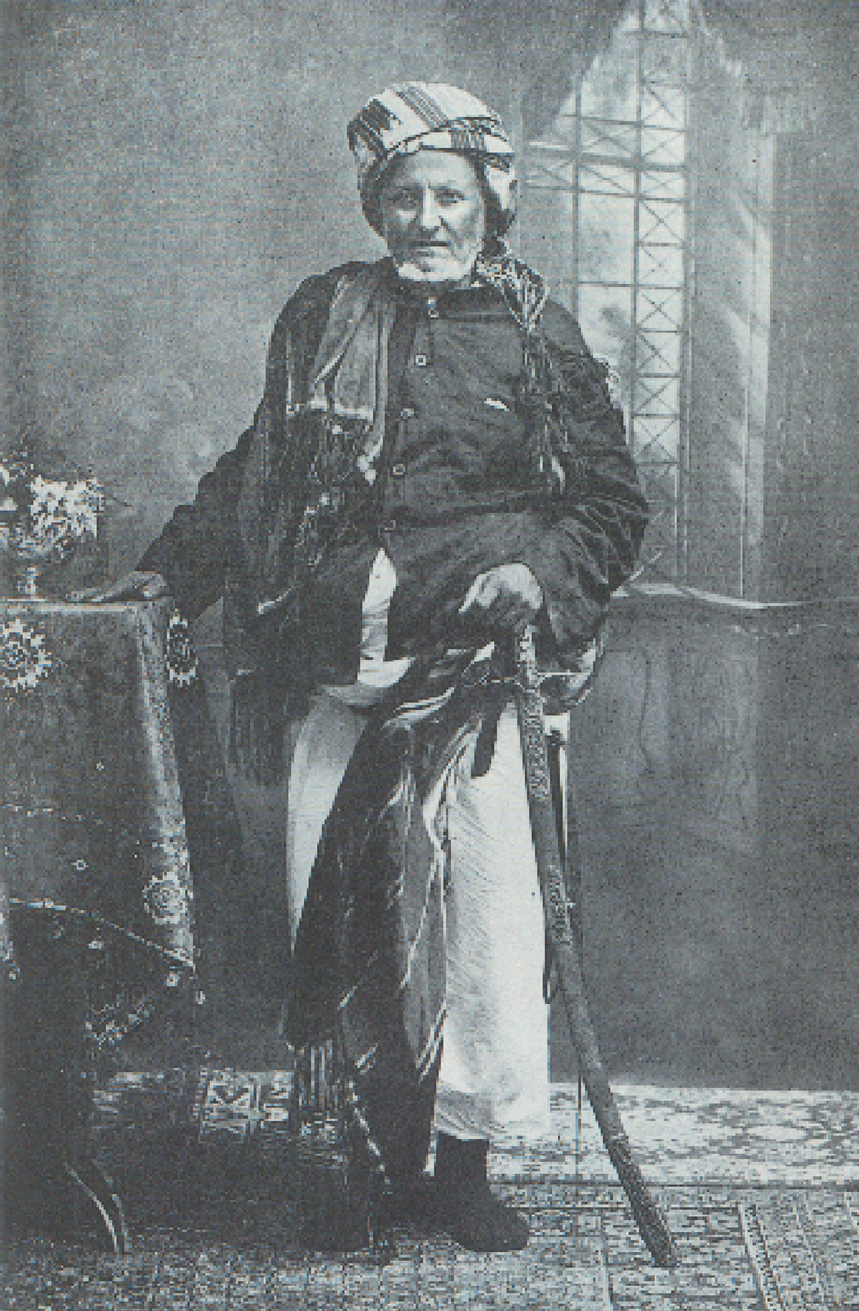 Sultan Hussein Bin Ahmed Bin Abdullah